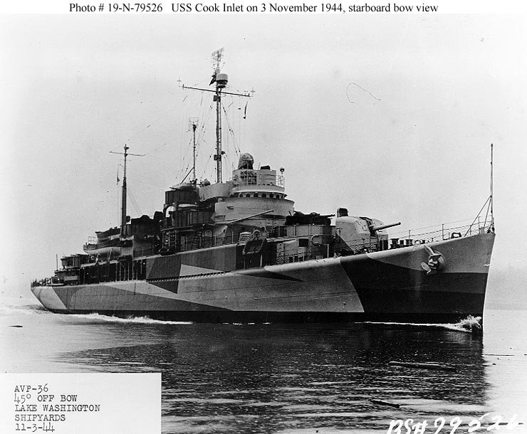 United States Navy seaplane tender USS Cook Inlet (AVP-36) off Houghton, Washington, on 3 November 1944, two days before commissioning